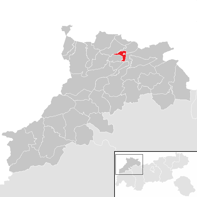 District Reutte